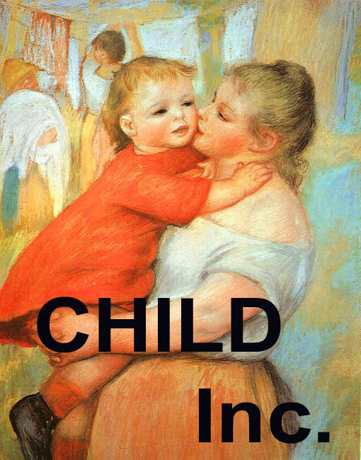 A painting in the public domain by Pierre-Auguste Renoir entitled "Aline and Pierre", 1887. Superimposed on it is the acronym for our organization's name.